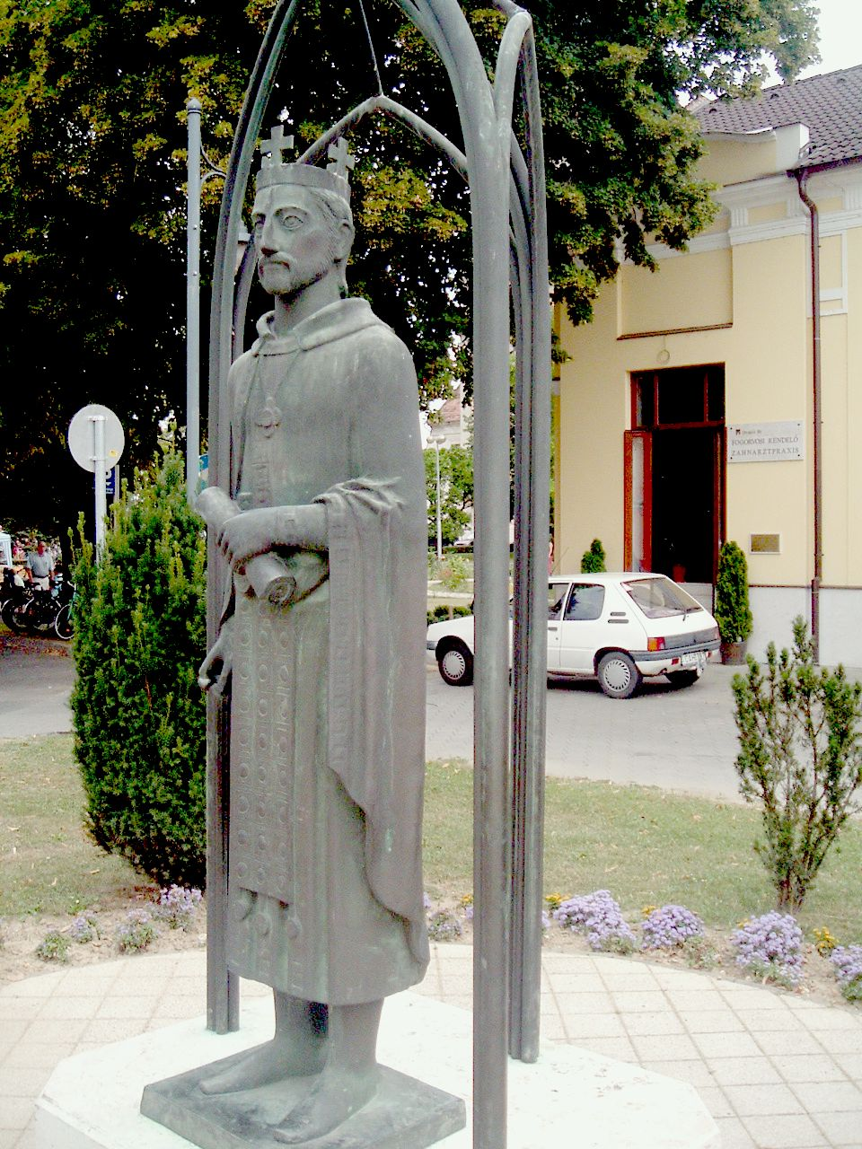 The statue of the founder of the city King Béla III. in Szentgotthárd (Sculptor: Gömbös László – 1983)